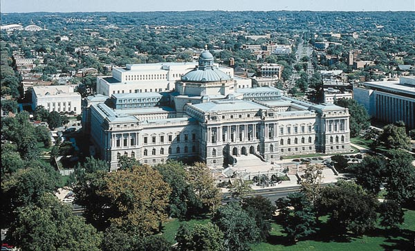 Image of the Thomas Jefferson Building taken from the webpage of the Library of Congress